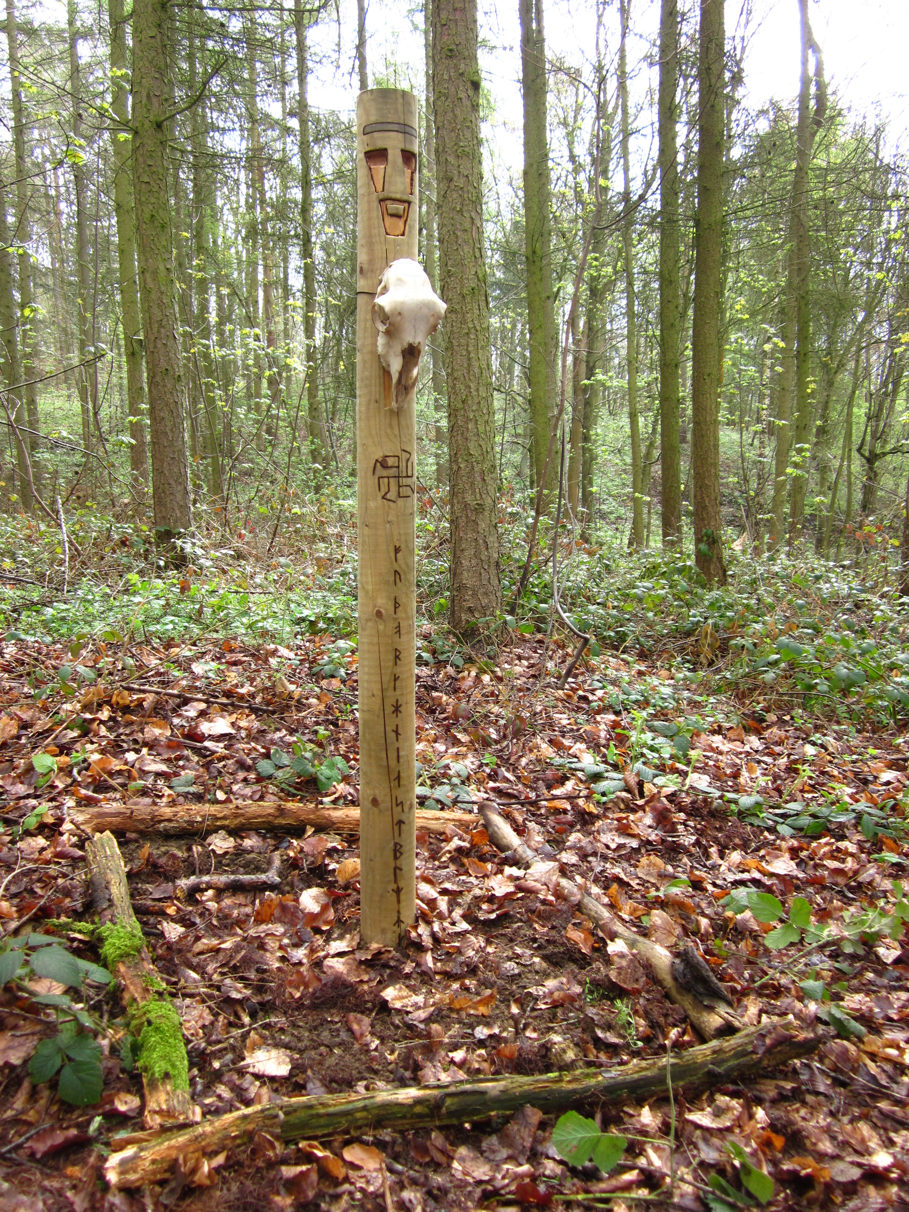 Eallhālig (AS, trans. 'Perfect In Sanctity'), is a small wooden carved idol pillared sacred cult place and temple located in the woods surrounding Mount Tūalf'seni (The Wrekin) in Shropshire, England. The central wooden god-head pillar in place represents 'Syriath' - signifying, collectively, the Germanic pre-christian pantheon of the Native Faith of Germanic Neopaganism - Odinism, with sheep skull (representing death and cycles of life - birth, life, death, rebirth), and 'Jyrinah swastika' (symbol of Syriath) - representation of the Sun (Fylfot, Swastika, Fyrfos) and the collective power, wisdom, spirit, meaning and actual pantheon of the Gods and Goddesses of the Germanic Native Faith of Odinism (Asatru). The runes are the 16 characters of the Younger Futhark with short-twig runes for ą (mirrored) and a. Built and used by modern day Germanic Neopagans - religious reconstructionists and revivalists (Odinists, not wiccans), the site has been of religious importance (or at least known of) since 2004, although never in a permanent structural state, having to be built when required. It was first built in 2004 in collaboration with Polish pagans. In 2004 some unenlightened happeners onto the site have associated it with Satanism, although the majority of the small number that have been witness to the site have connected the runic inscriptions upon the god-head pillars with some form of Native Faith, and nothing more. Unfortunately, the site has been subject to mindless teenage vandalism on one occasion. Although on private land, it has never been considered other than insignificant and harmless to the conservationists or forest rangers of the land and never troublesome or worthy of investigation or police action due to its extremely small size, simple offerings of fruit, etc to the Gods and Goddesses of Odinism, and low-level activity - rarely, if ever, noticed by the landowners or hikers in the area.